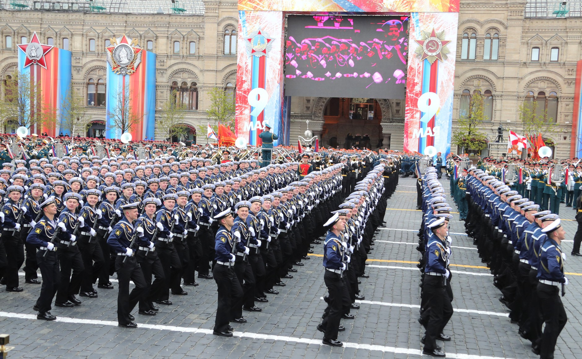 Military parade on Red Square 2017-05-09